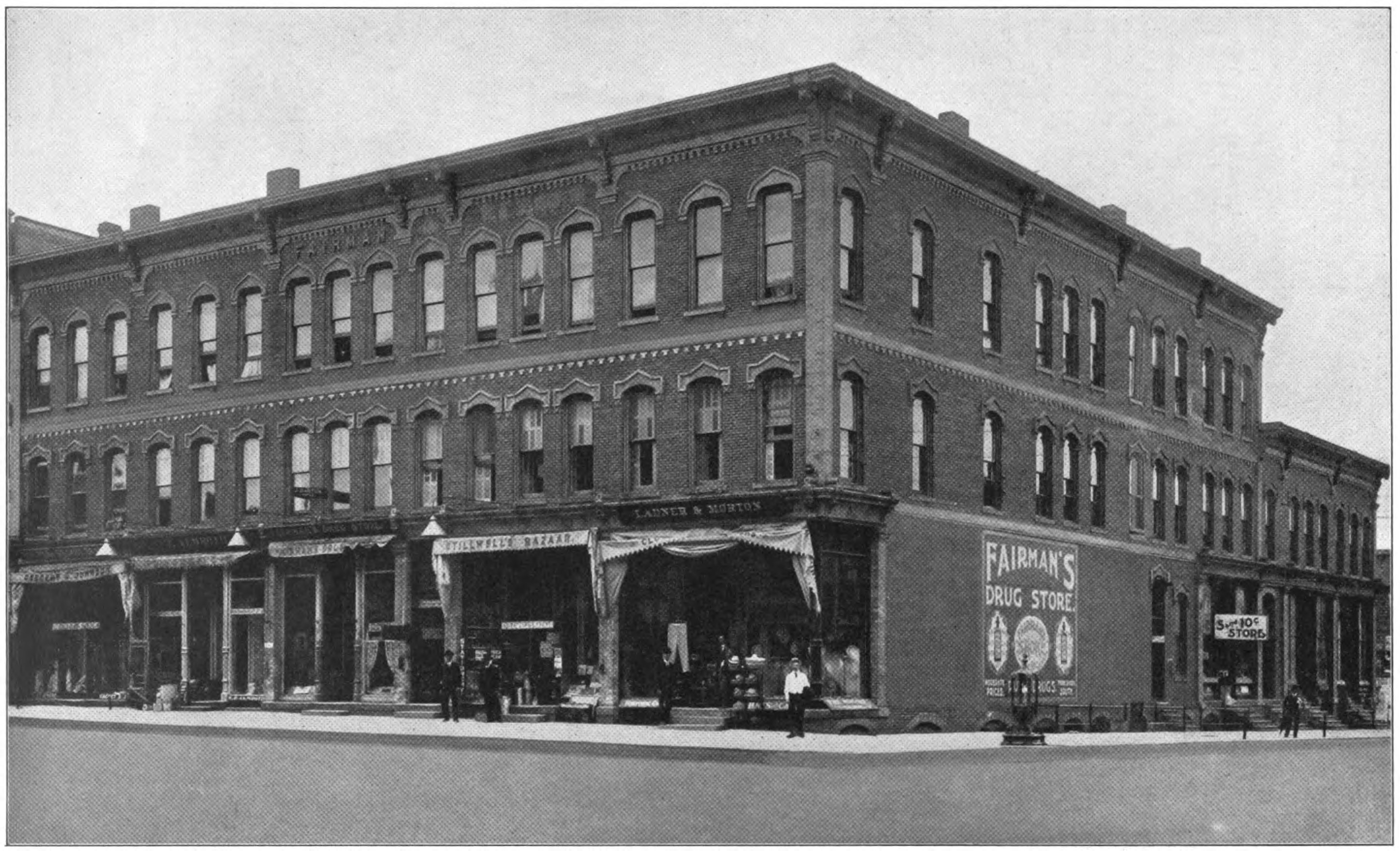 The Fairman Building in Big Rapids, Michigan, circa 1906. It is listed on the NRHP.